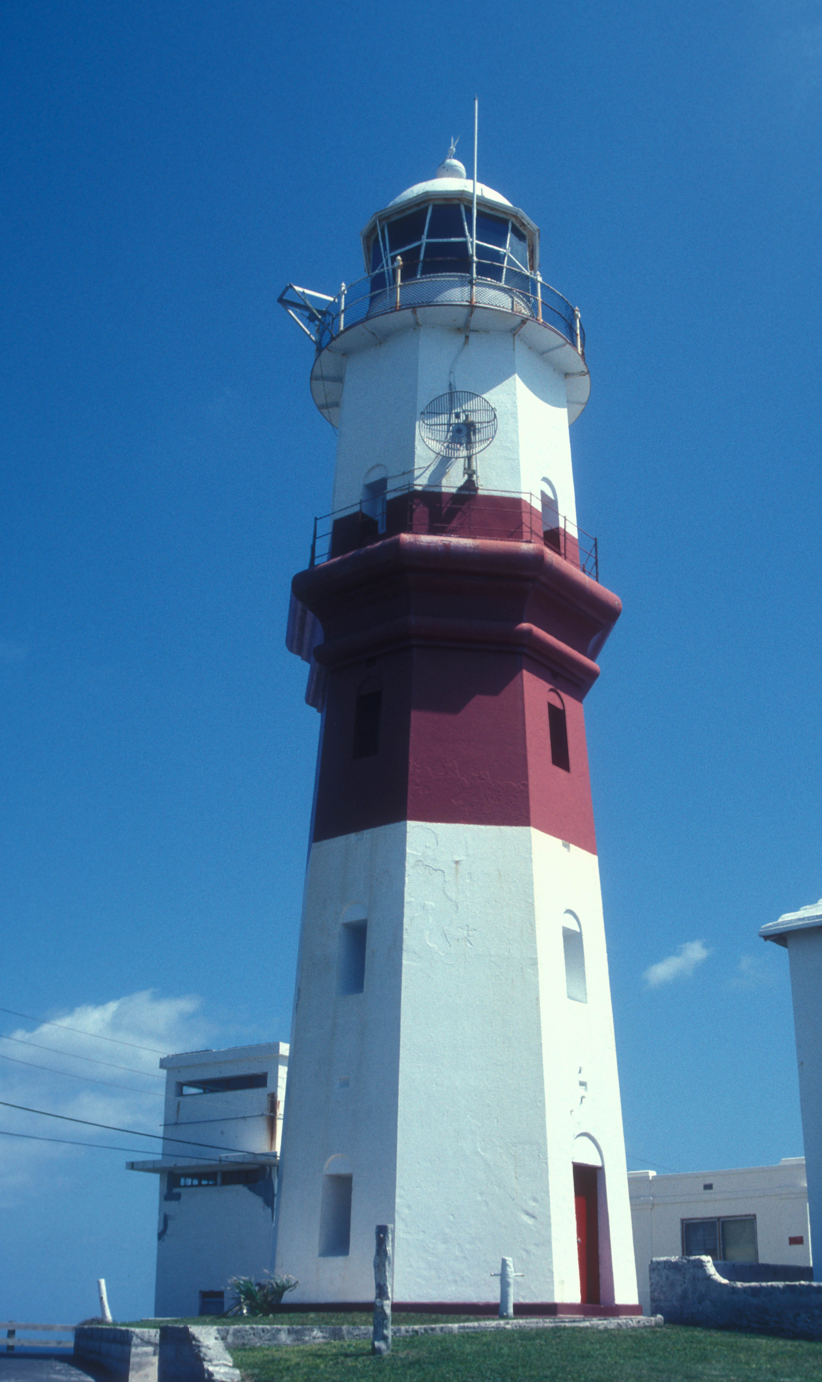 ST. DAVID'S LIGHTHOUSE; BUILT IN 1879 OF BERMUDA LIMESTONE